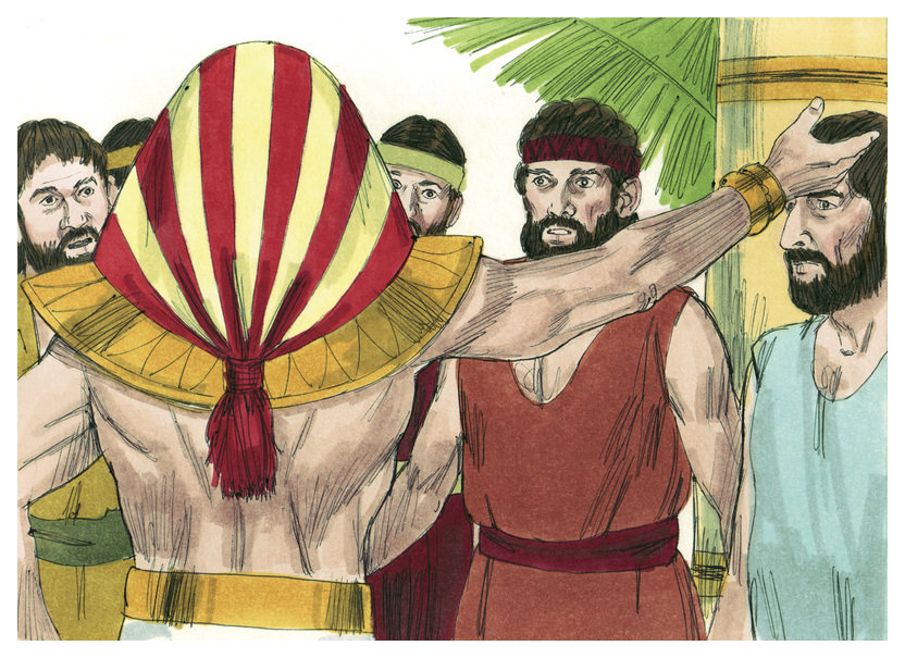 Biblical illustration of Book of Genesis Chapter 45